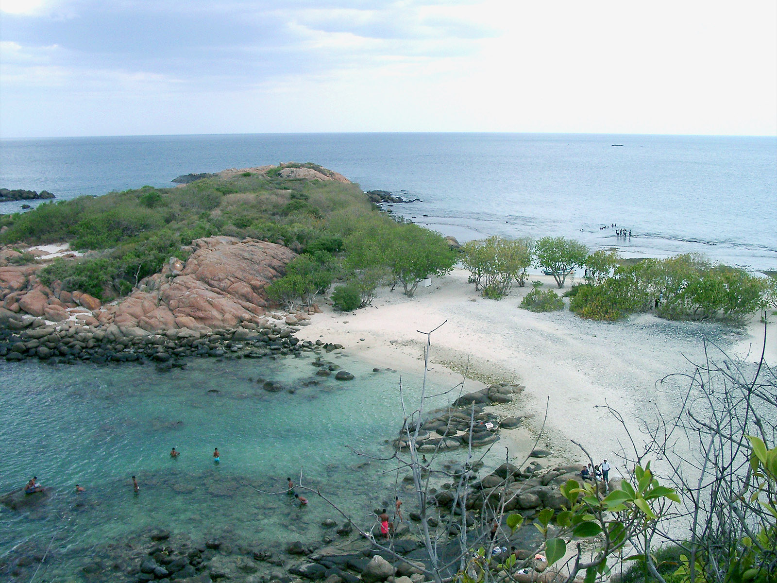 Pigeon Island near Trincomalee in Sri Lanka